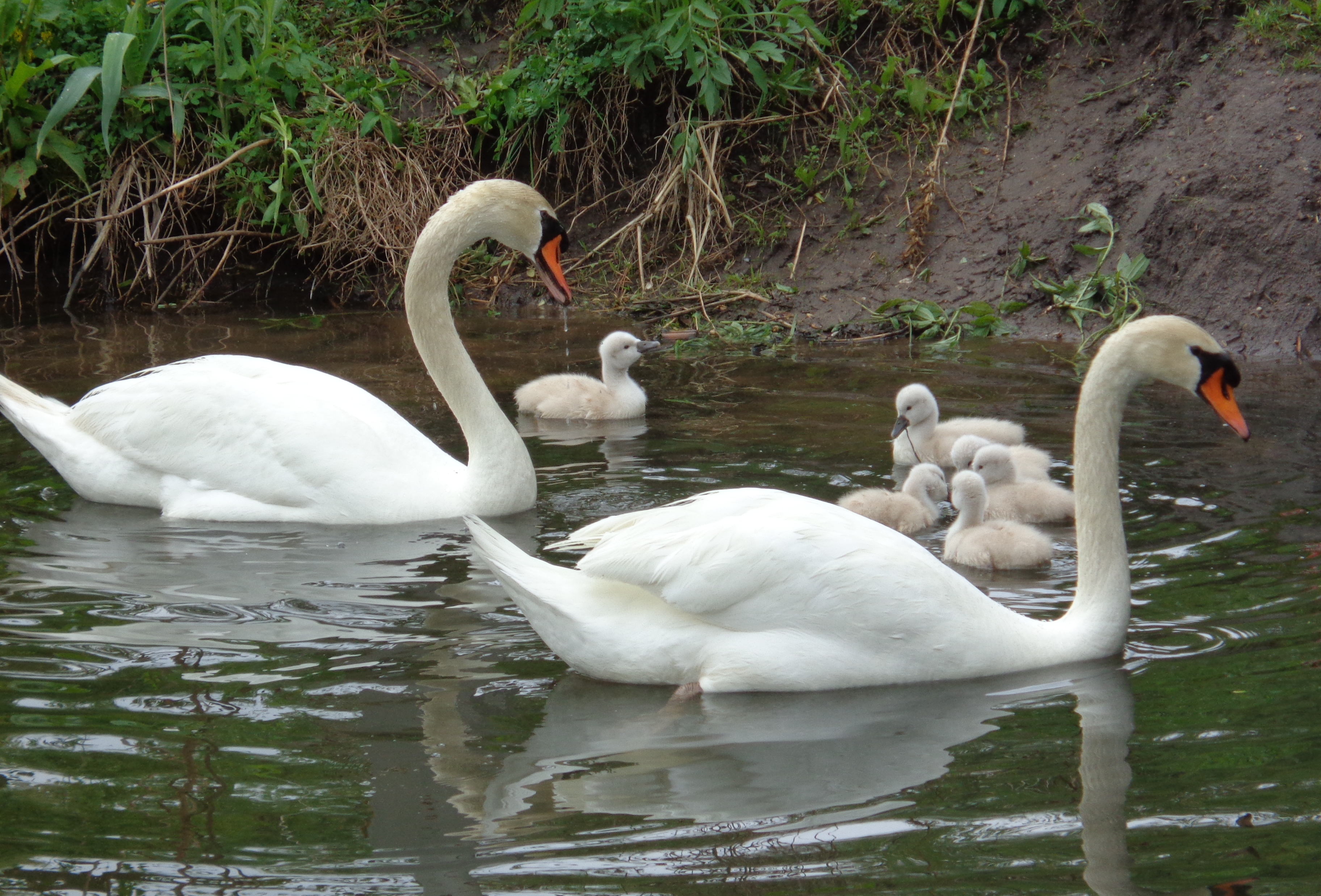 A family pf swans and cygnets swimming at Western Michigan University in Kalamazoo during the 50th International Congress on Medieval Studies